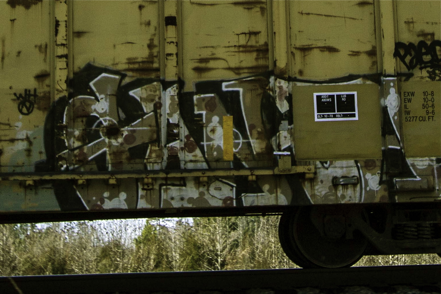 The word "ganja" written in graffiti (original image)